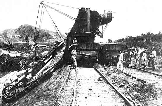 Excavator at work, in Bas Obispo, Panama Canal (1886).